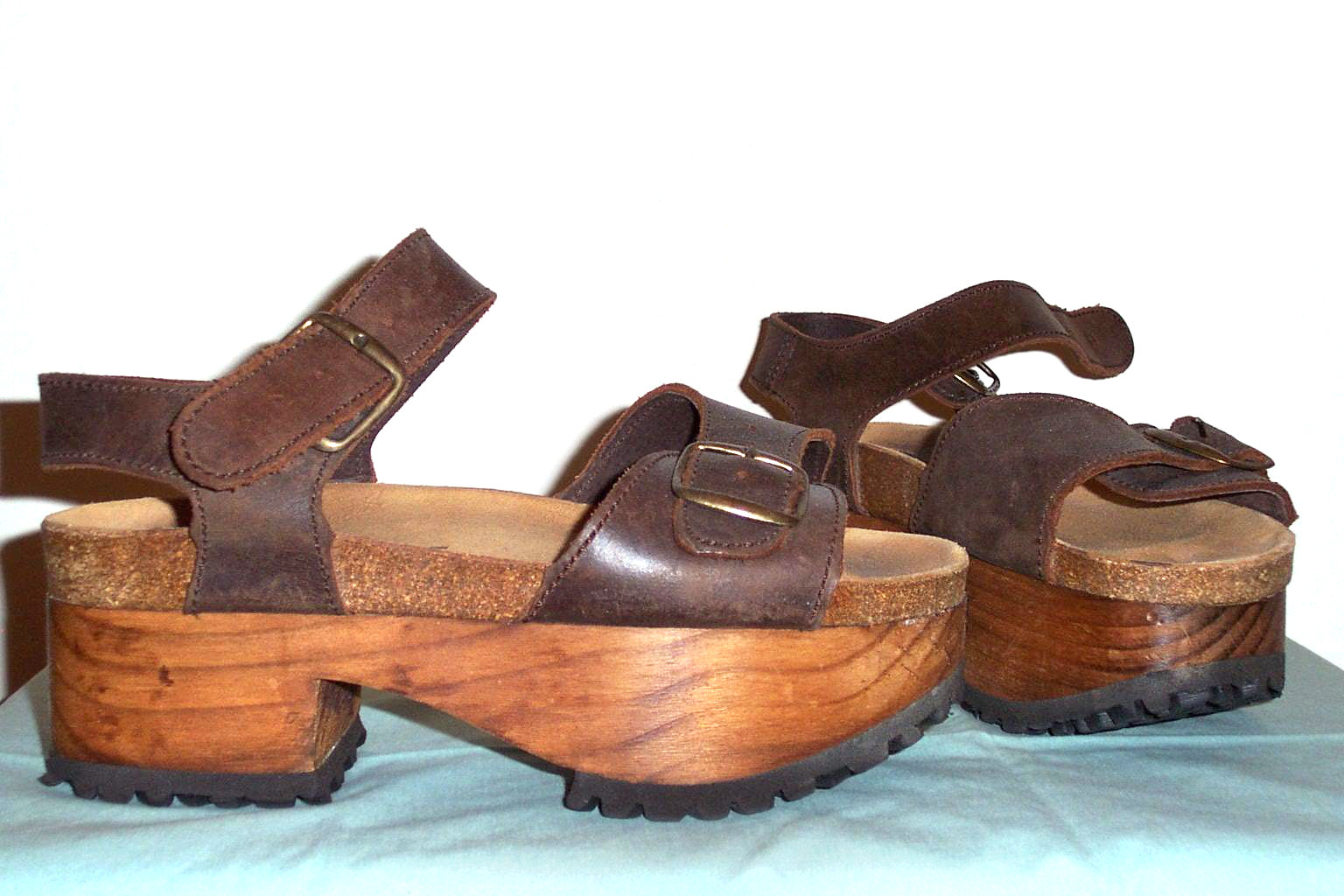 Sandals with wooden platform sole and leather upper, made by the British company Buffalo Boots. Colour wood and dark brown. Brightened version of original source image.